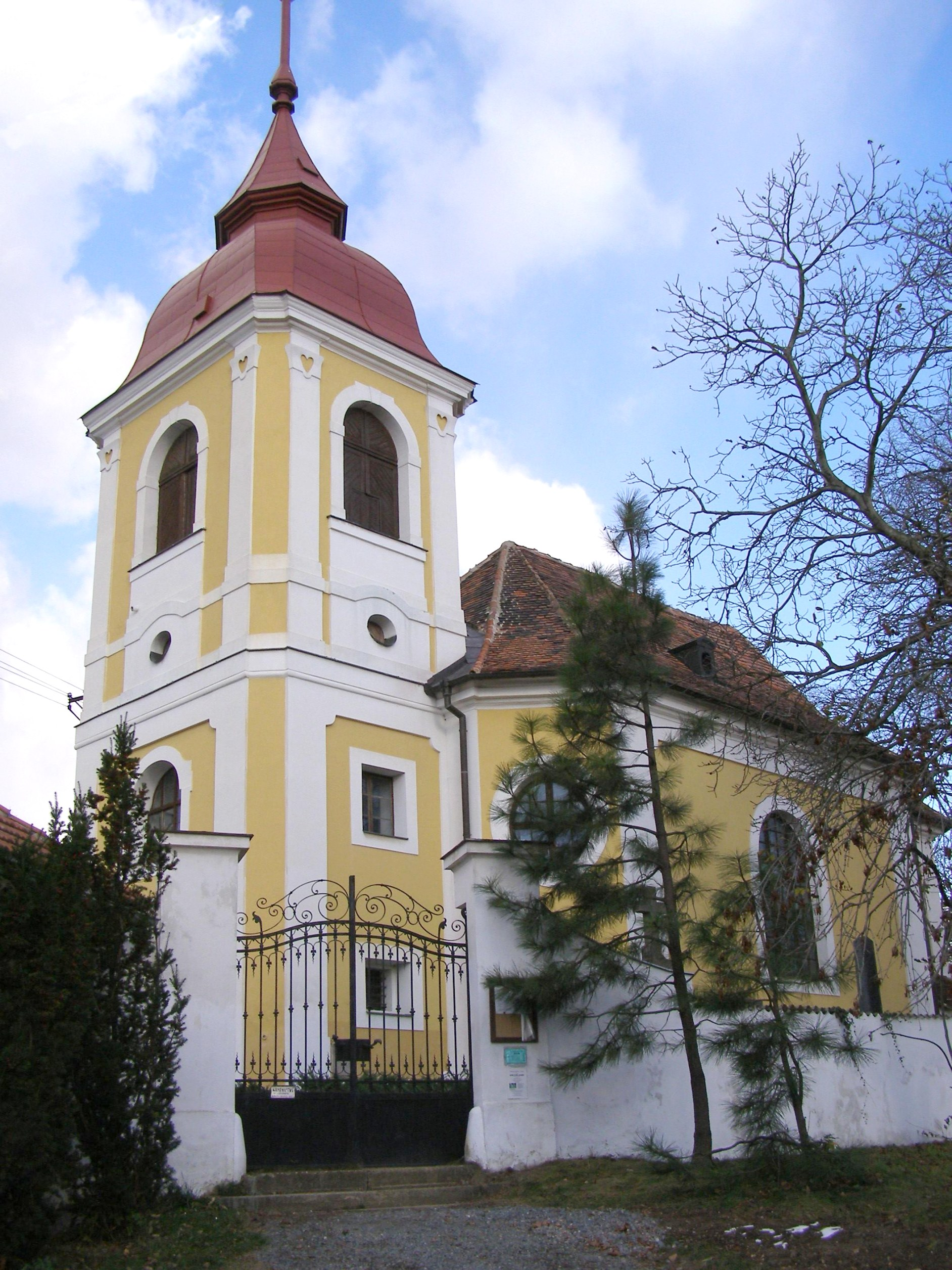 Church of Exaltation of the Holy Cross in Zdiby.